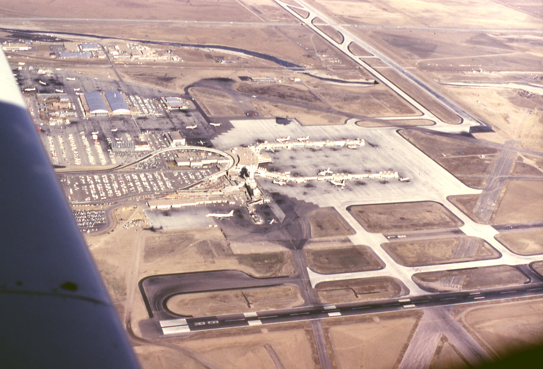 Aerial view of the old Stapleton Airport, Denver, South to North view. Shows Runways 8L, 8R and R35 (later to be designated 35L). Runway 35R had not yet been constructed. Shows old United Airlines Pilot Training Buildings on the Airport proper. Later, newer complex was constructed immediately west of the airport. A UAL DC-8 training flight is making a missed approach, complete with its shadow on the ground.